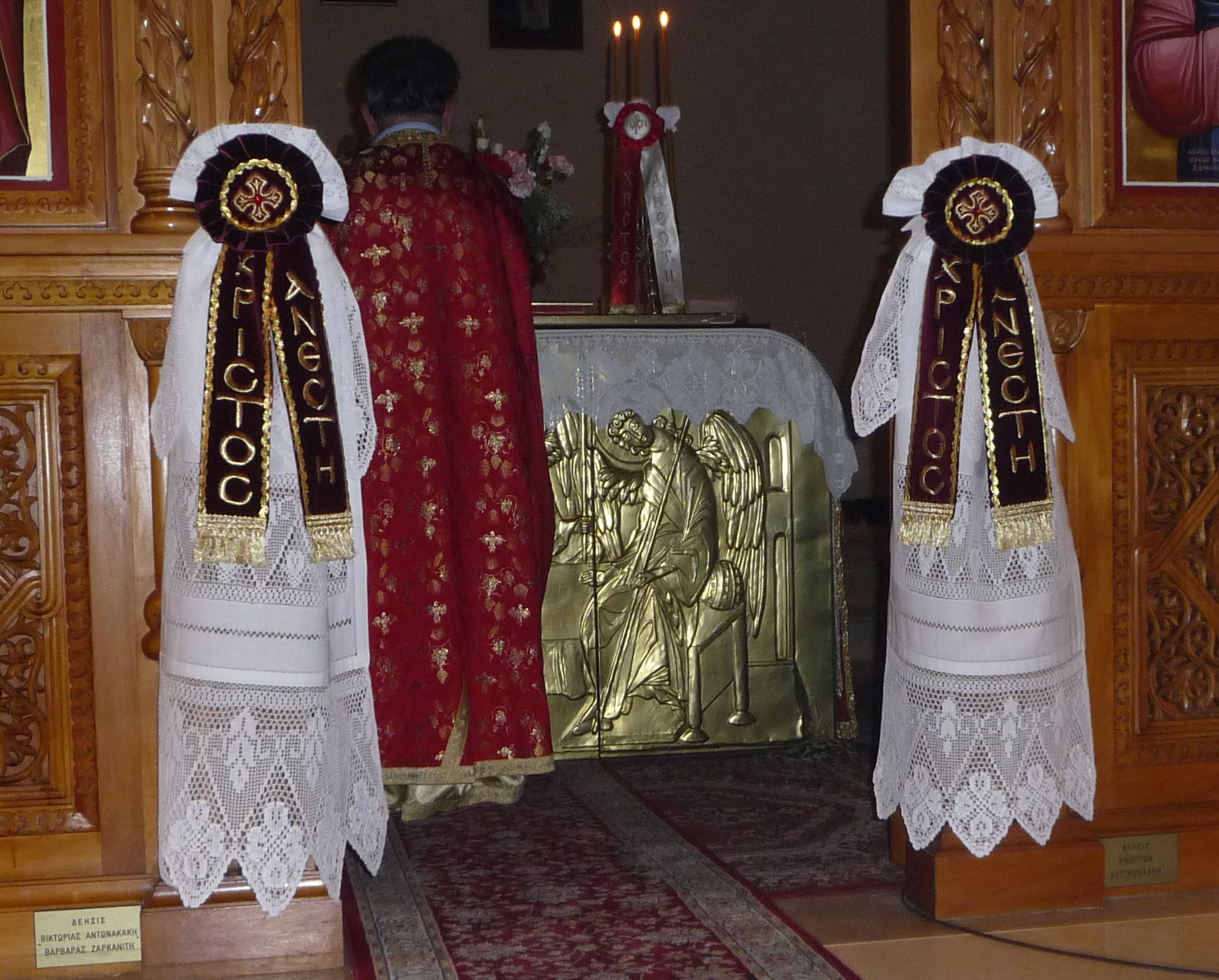 Orthodox Easter in Ludwigshafen, Germany. On the altar stands the tripple Paschal candlesick.